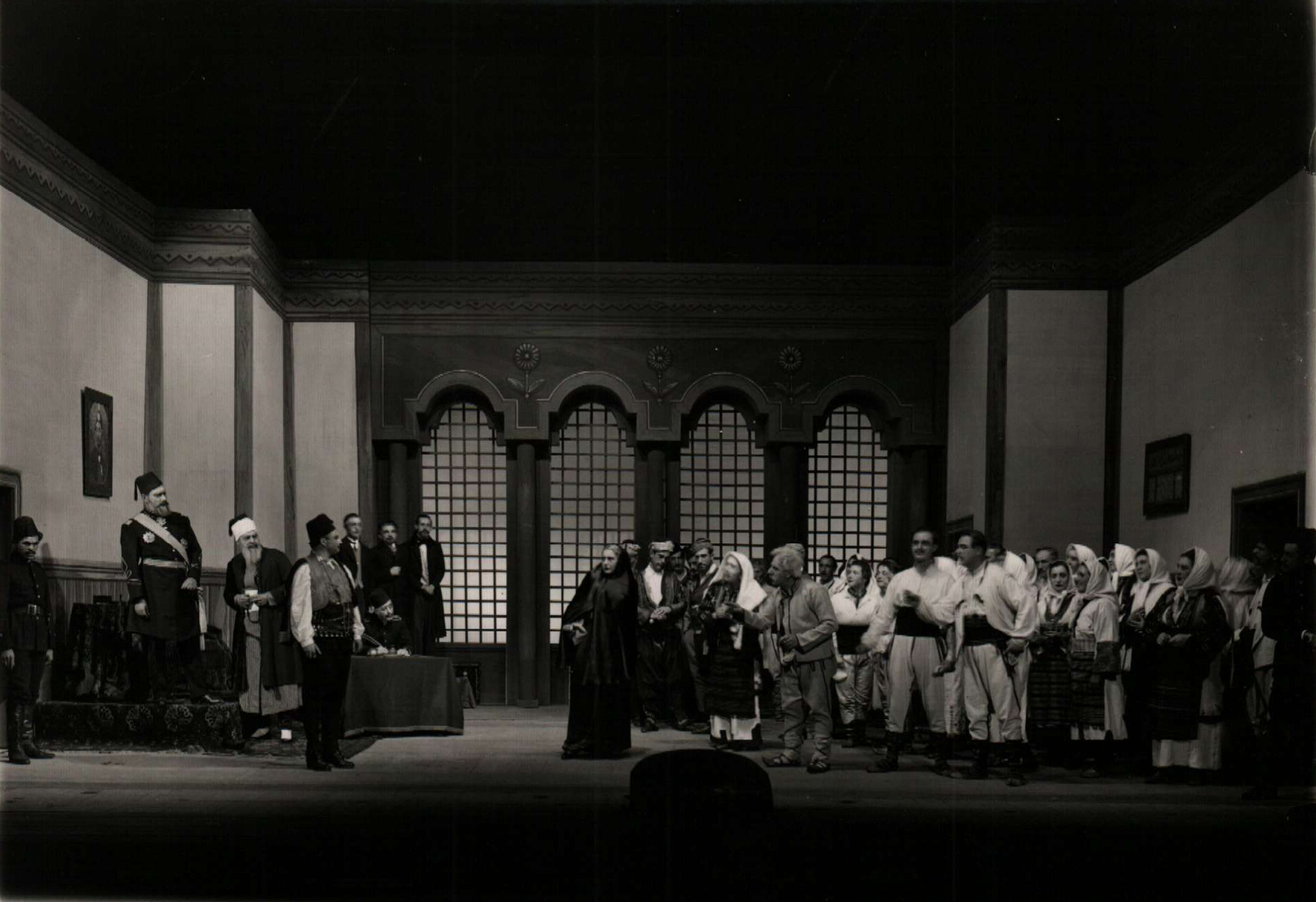 Actors of the opera "Tsveta" from Maestro Georgi Atanasov.